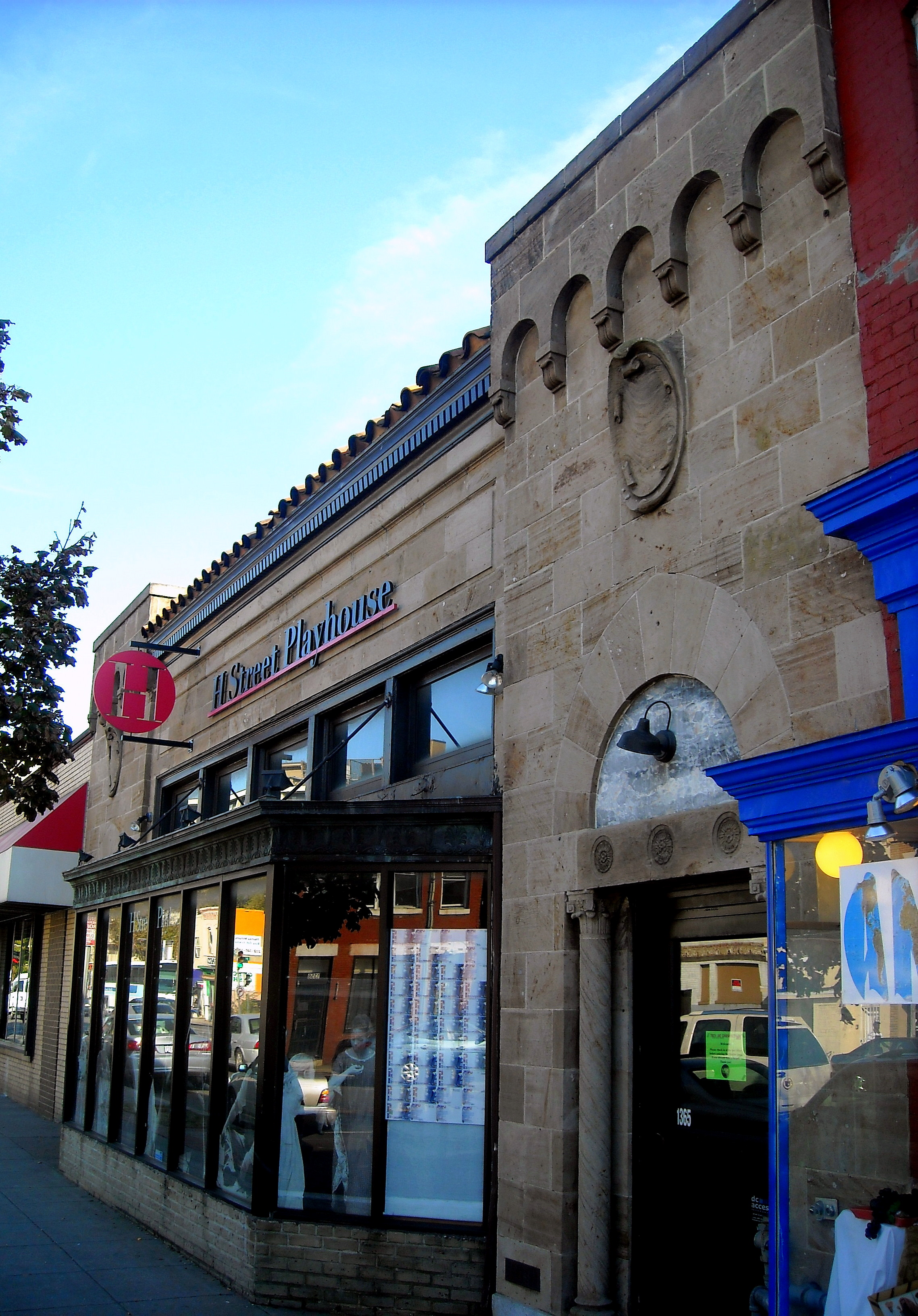 The H Street Playhouse, formerly known as the Plymouth Theatre and Mott Motors, located at 1365 H Street, NE in the Near Northeast neighborhood of Washington, D.C. Designed by the architectural firm Upman & Adams in 1928, the Romanesque building is now listed on the National Register of Historic Places.